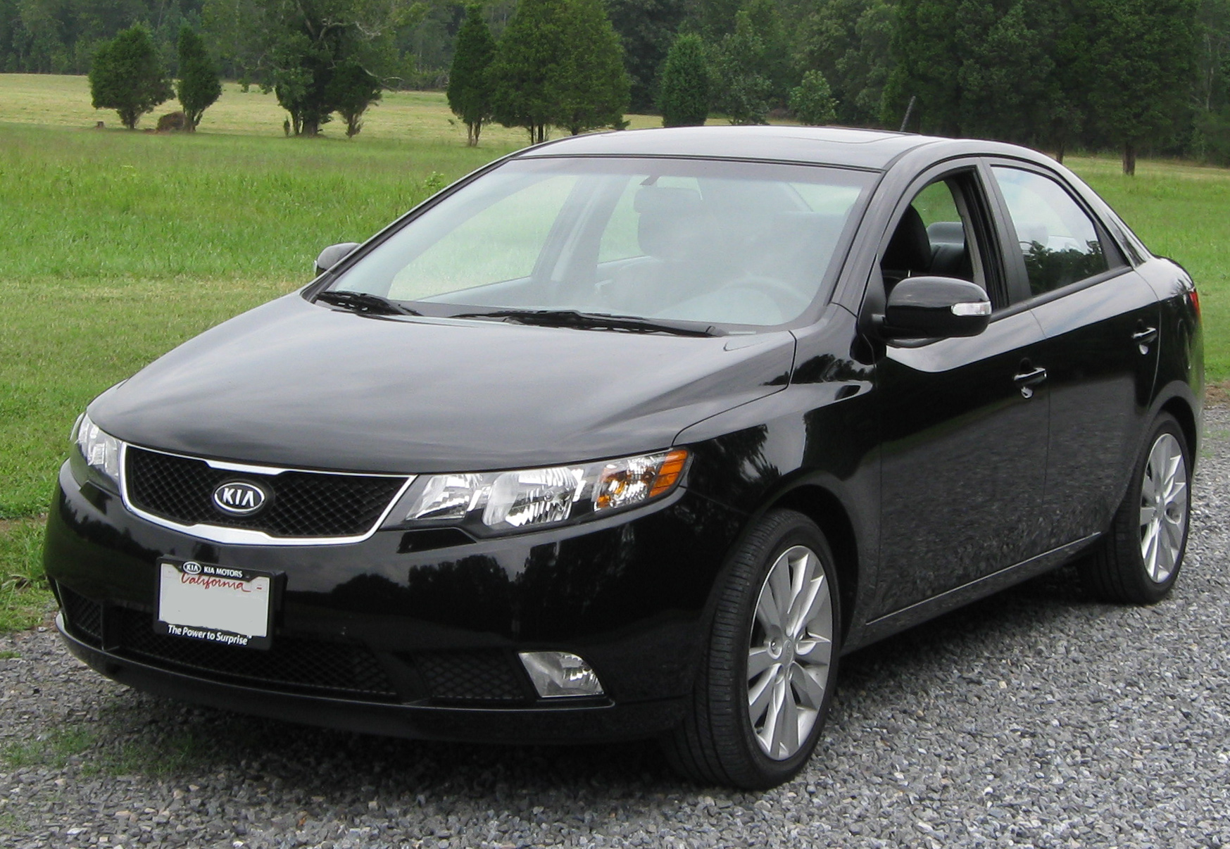 2010 Kia Forte SX photographed in Port Tobacco, Maryland, USA.